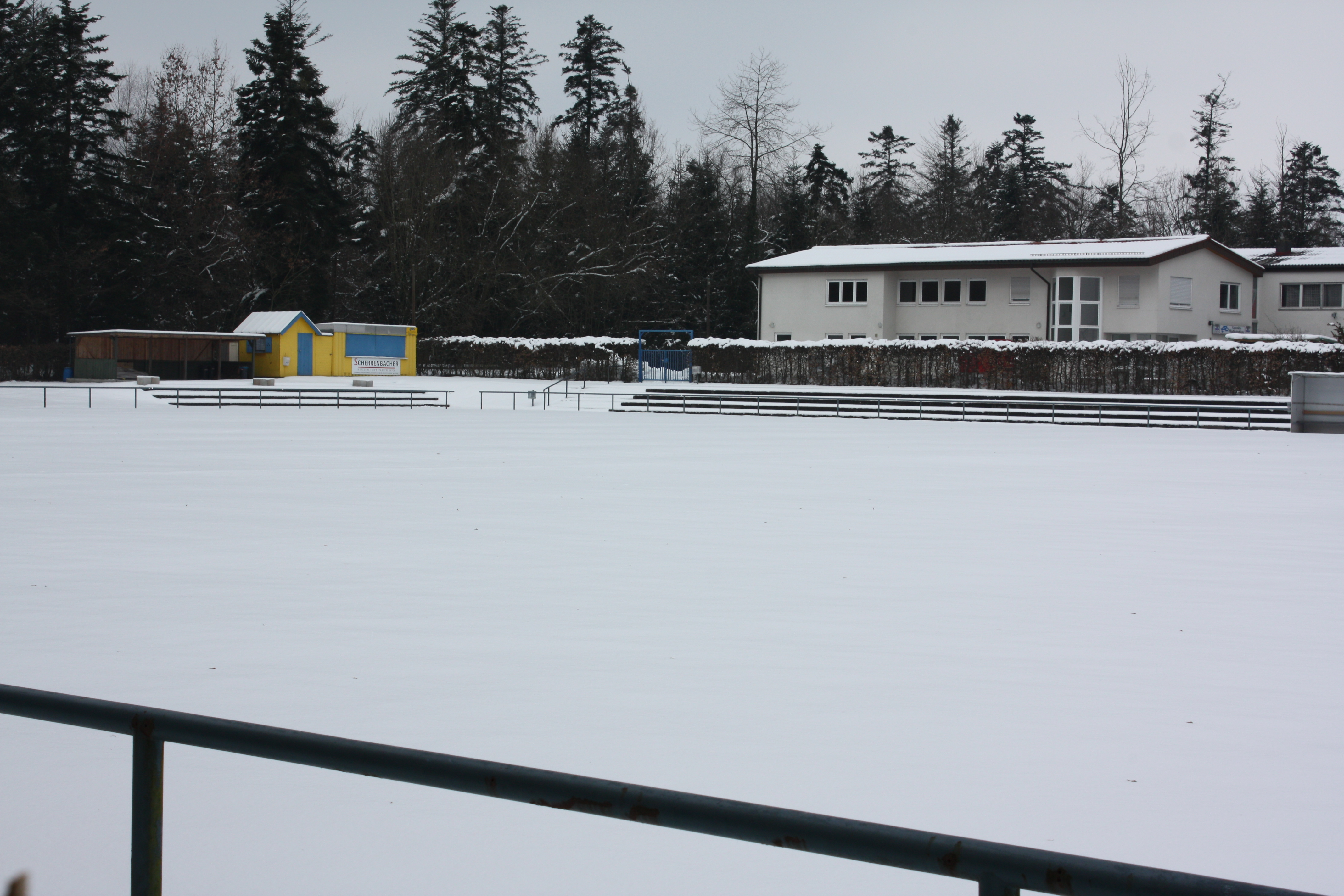 The "Waldstadion im Laichle" in Rehnenhof-Wetzgau, Schwäbisch Gmünd, Germany. Football ground of the TSB Schwäbisch Gmünd. Nearby the Office of the club. Office and ground opened 1969 for the predecessor club SV Rehnenhof.